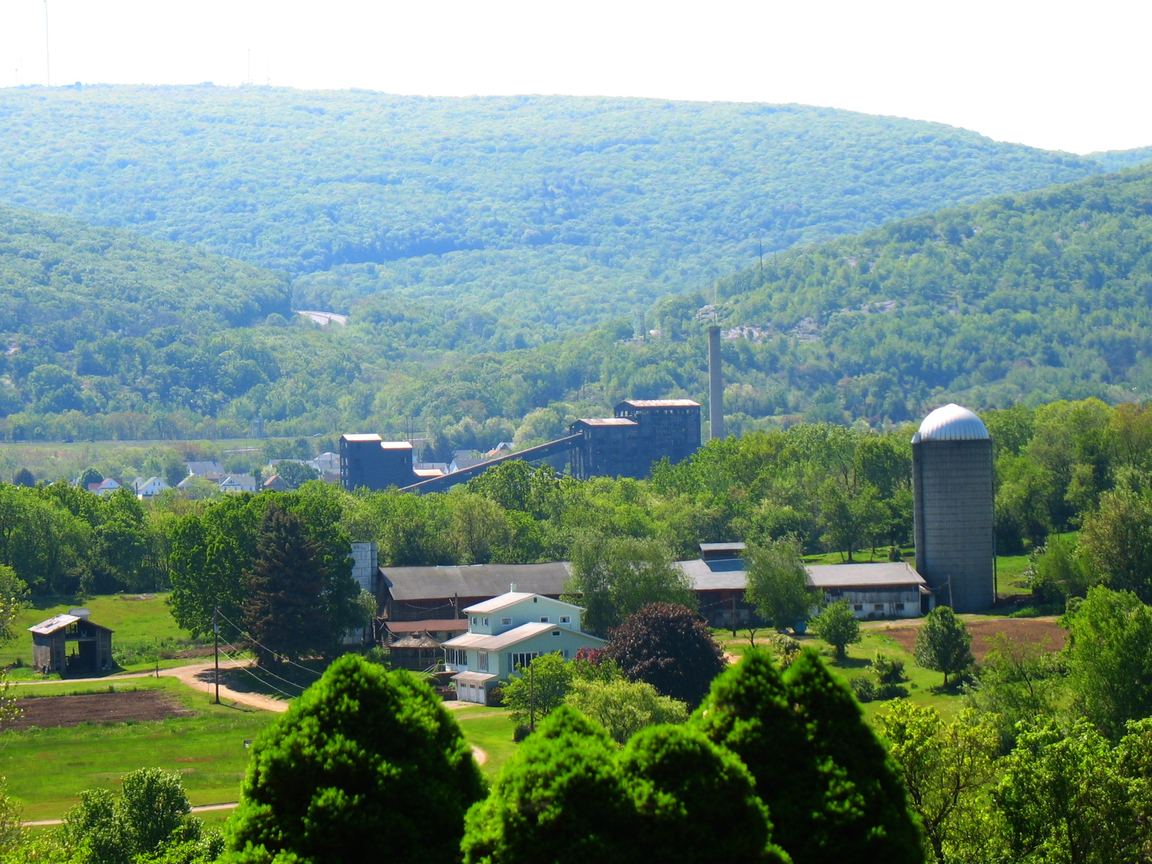 Huber Colliery and farm in Hanover Township, Luzerne County, Pennsylvania